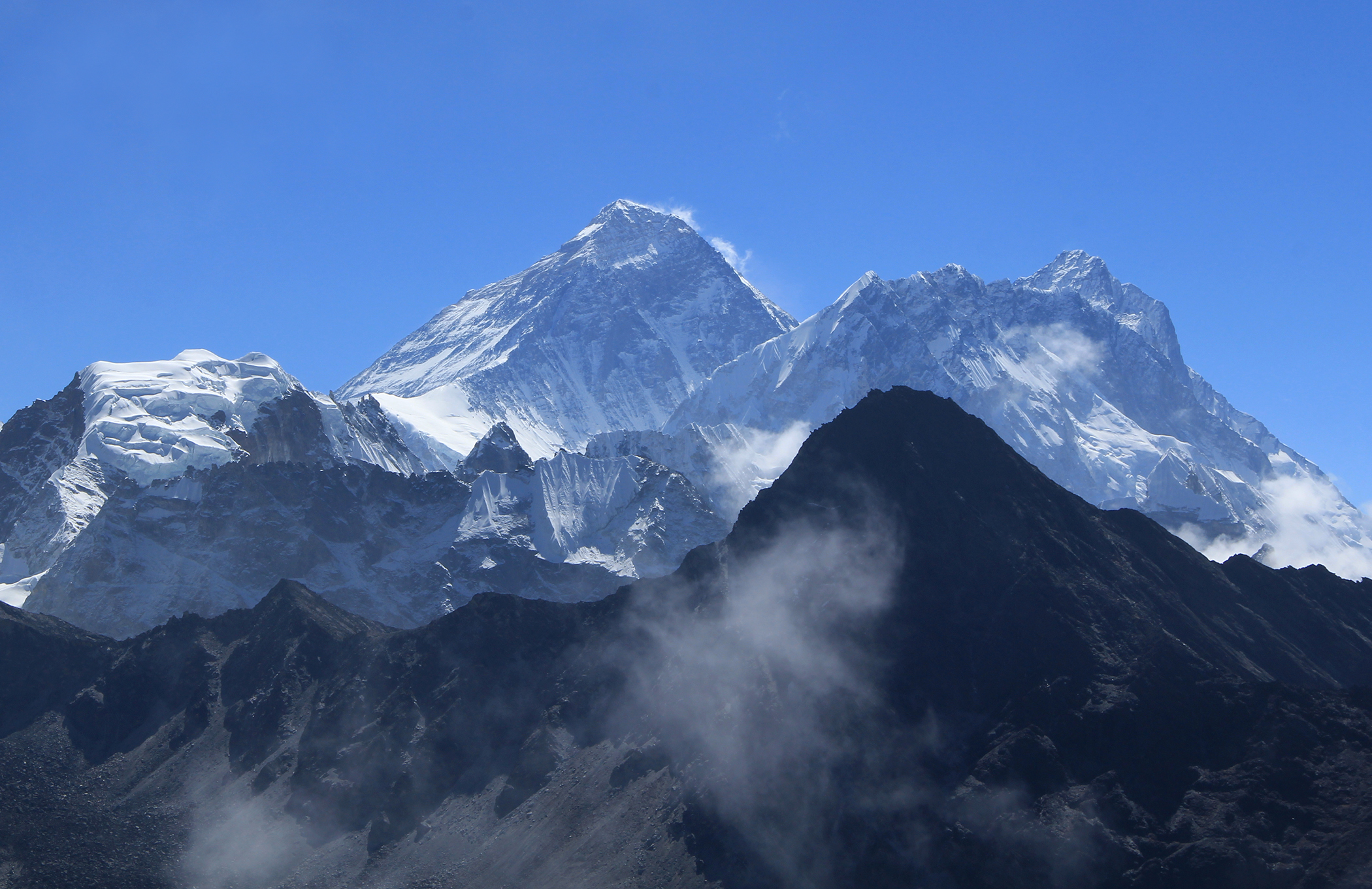 Mt Everest